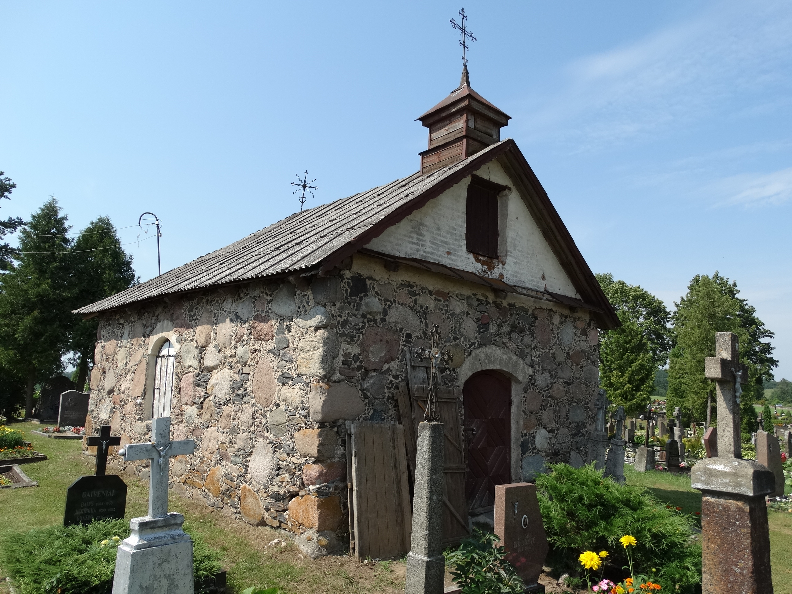 Chapel in Tauragnai cemetery, Utena District, Lithuania